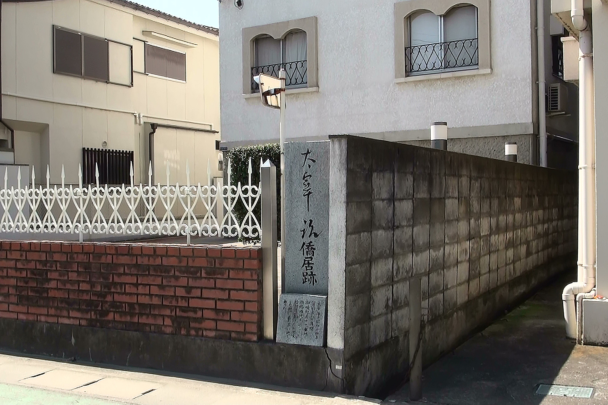 A place of Kofu-city where Osamu Dazai lived in